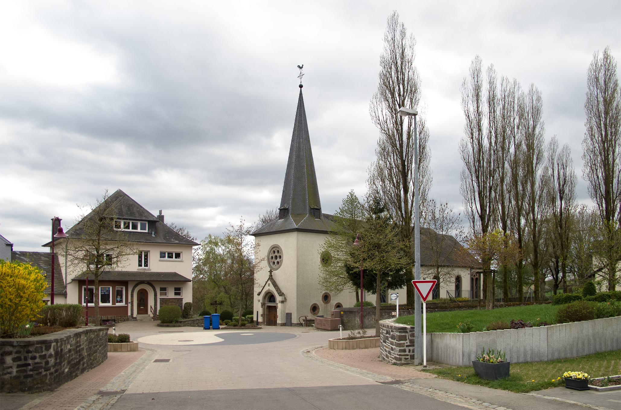 Church of Dahl, Luxembourg